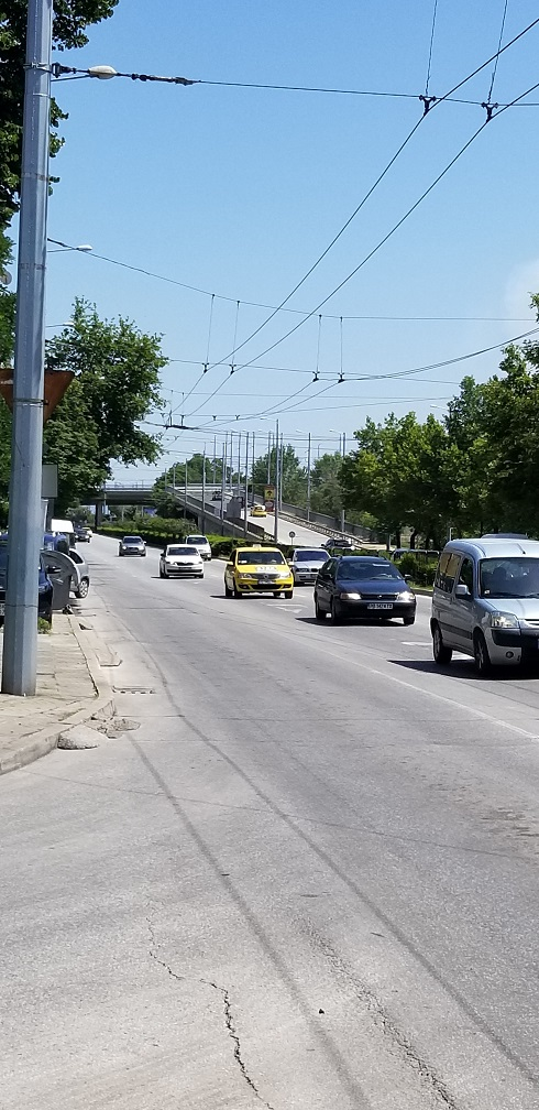 Naycho Tsanov Boulevard in Plovdiv